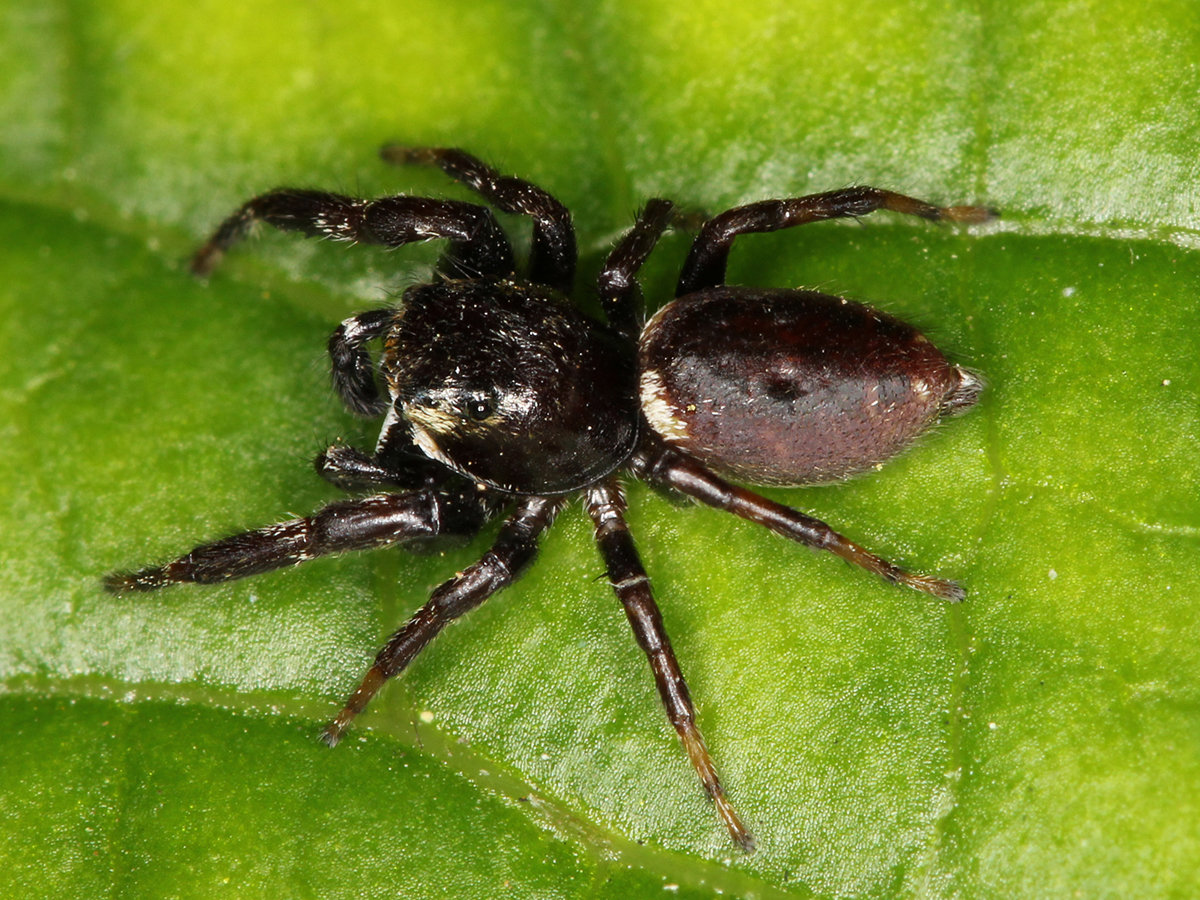 Adult male Metaphidippus manni jumping spider found at Briones Regional Park. Contra Costa County, California.